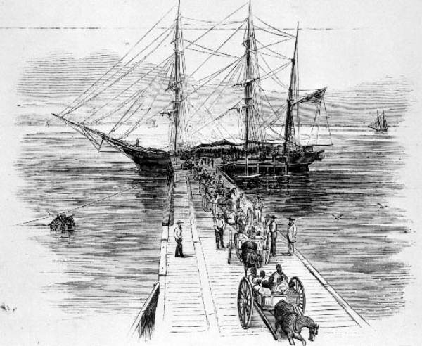 Local call number: N045700 Title: Drawing of a landing of a cargo of slaves Date: ca. 1860 Physical descrip: 1 photonegative; b&w; 4 x 5 in. Series Title: General collection General note: The slaves were on the ship Williams but were captured by the U.S. Wyandotte. Repository: 500 S. Bronough St., Tallahassee, FL 32399-0250 USA. Contact: 850.245.6700. Persistent URL